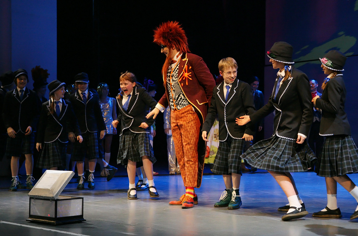 "The Academy of Professor Klex" musical in Roma Musical Theatre in Warsaw.